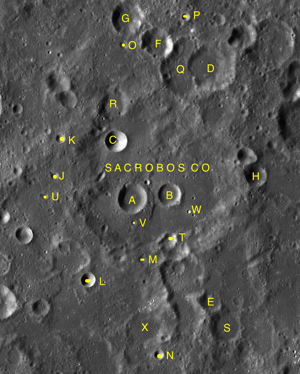 Part of the chart LAC-96 used for the presentation.